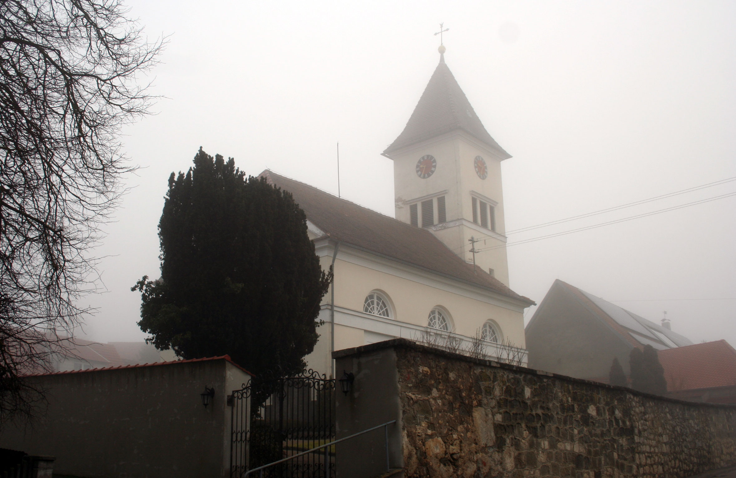 St. Martin church, Forheim-Aufhausen, Germany